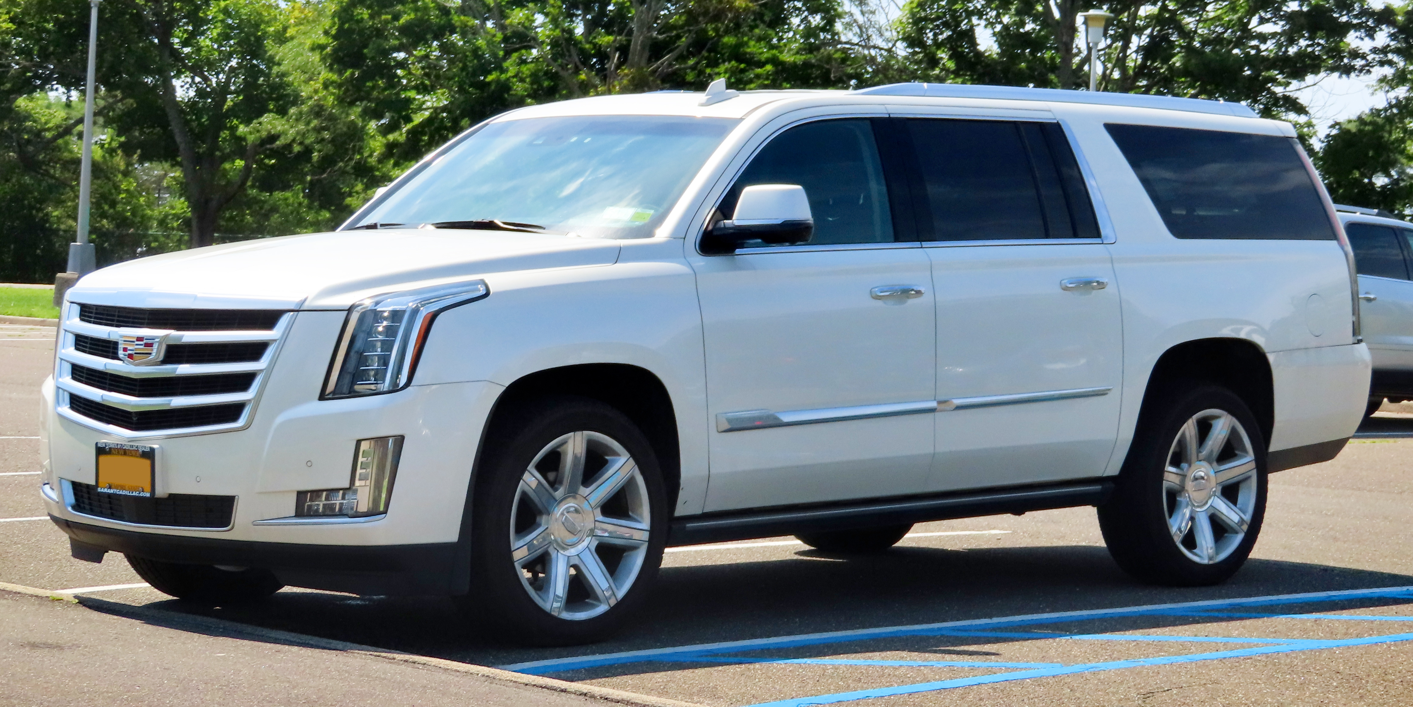 2015 Cadillac Escalade ESV Premium photographed in Wantagh Park, Wantagh, New York, USA